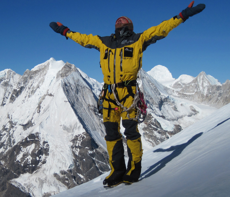 World-renowned New Zealand mountaineer Marty Schmidt in the Himalayas